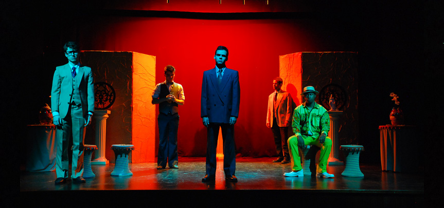 "Sob Nova Direção", peça de cunho social, encenada em 2012. Foto: Jesualdo Castro.